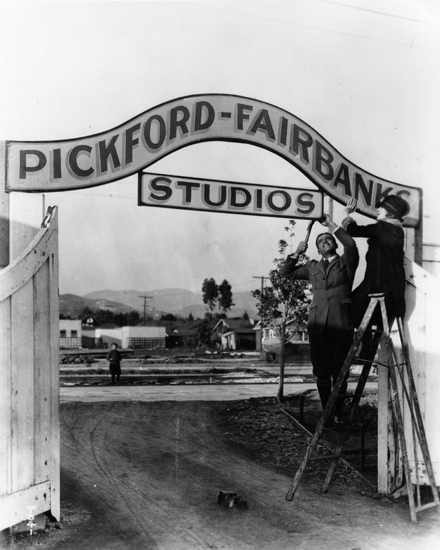 Mary Pickford and Douglas Fairbanks hang the entrance signs for their Pickford-Fairbanks Studios in Hollywood. When United Artists was formed in 1919 by Charlie Chaplin, Mary Pickford, Douglas Fairbanks, and D. W. Griffith, they did not intend to have an actual studio; the company was solely a distribution company whose mission was to release films made by independent producers. Pickford and Fairbanks owned an 18-acre property at Formosa Avenue near Santa Monica Boulevard in Hollywood. It was originally owned by Jesse Durham Hampton, and then became known as the Pickford-Fairbanks Studio. Over time United Artists began to lure independent producers away from the large studios, so producers like Samuel Goldwyn and Joseph Schenck rented offices and stages on the property. The lot was renamed the United Artists Studio in the late 1920s, however, it operated as a separate entity from the United Artists distribution company. The studio lot's address is now 1041 North Formosa Avenue.